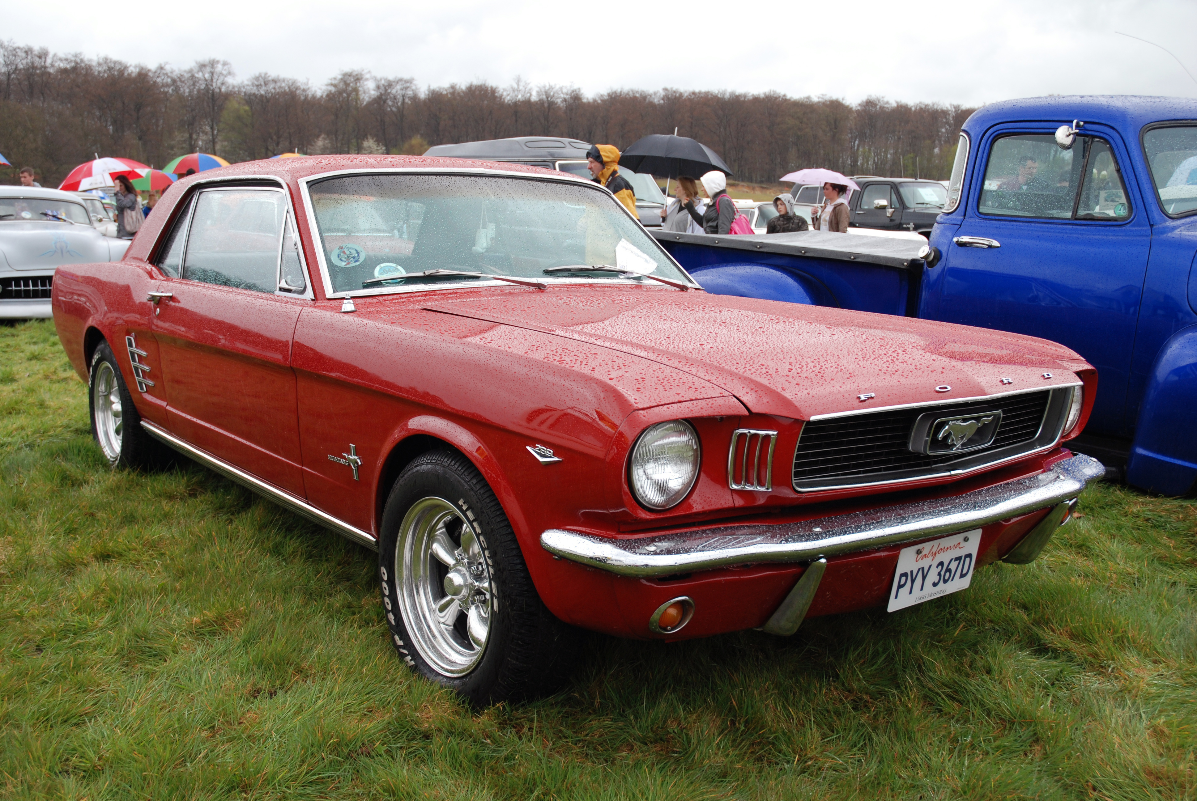 Wheels Day,Apr 2009